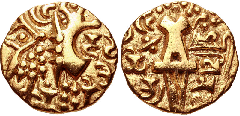 Yinayaditya of Kashmir Late 5th century CE. AV Dinar (23mm, 7.68 g, 12h). Abstract Kushan-style king standing left, sacrificing over altar and holding filleted standard; filleted trident to left; “Ka” in Brahmi to inner left, “Kidara” monogram and “Jaya” to outer right / Abstract Ardoxsho seated facing, holding filleted investiture garland and cornucopia; “Sri Vinaya” in Brahmi to right, “Ditya” to left.